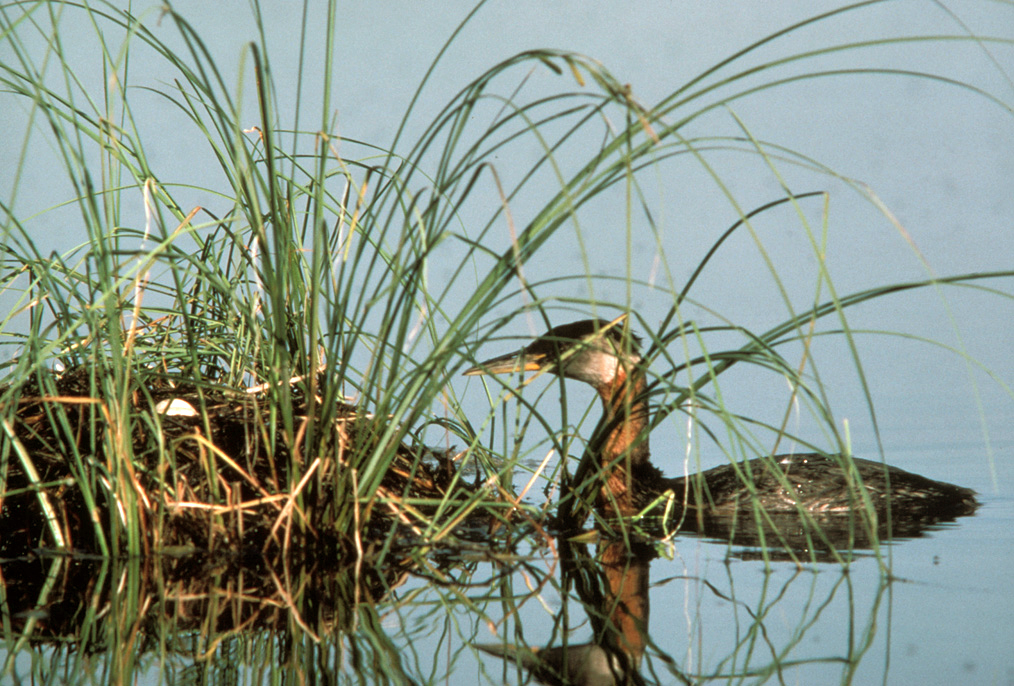 red neck grebe and nest (Podiceps grisegena)